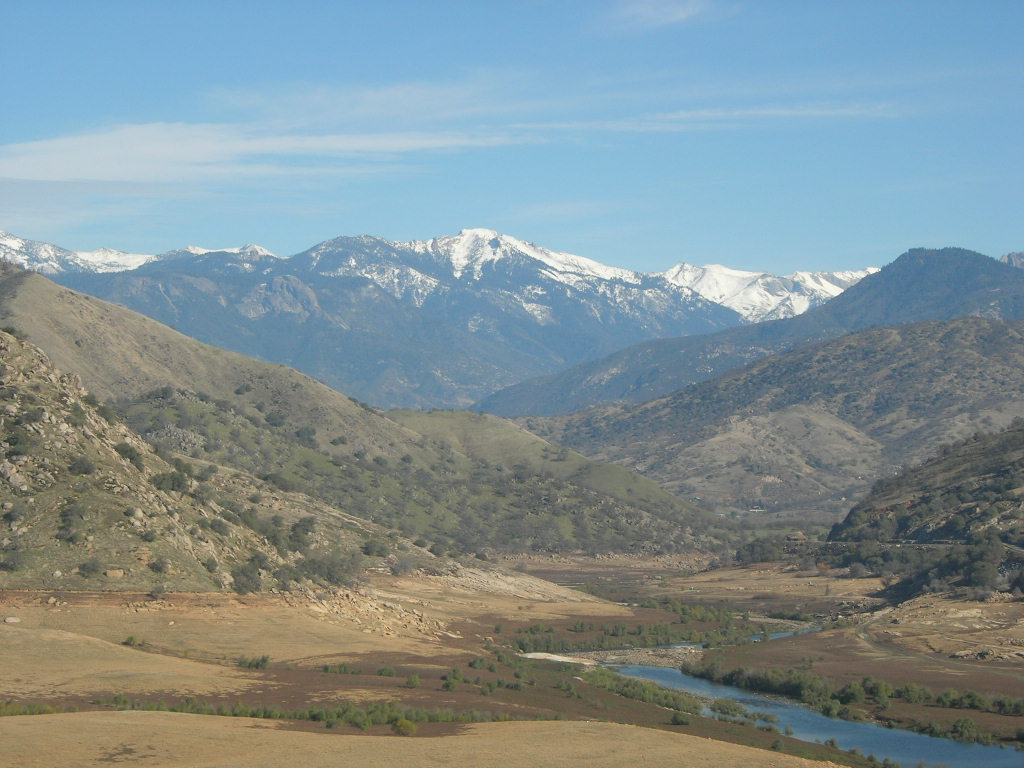 The lower Kaweah River at Terminus Dam, Tulare County, California Looking towards Three Rivers and Sequoia National Park in the Sierra Nevada. Photo taken by Phil Mieszkowski on December 31, 2006